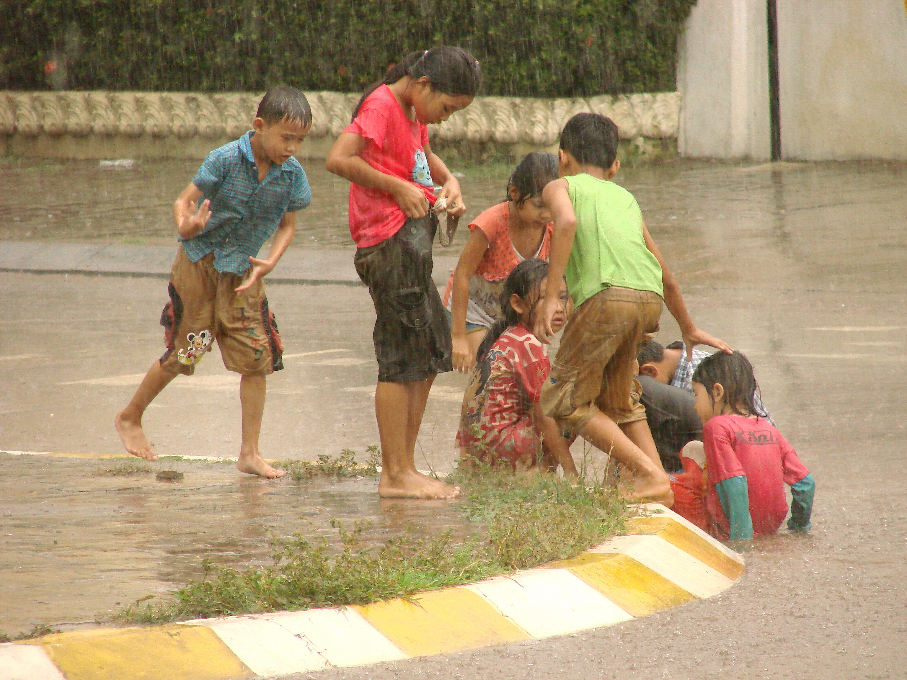 Children play in a monsoon downpour, Pakse, southern Laos. June 2009.